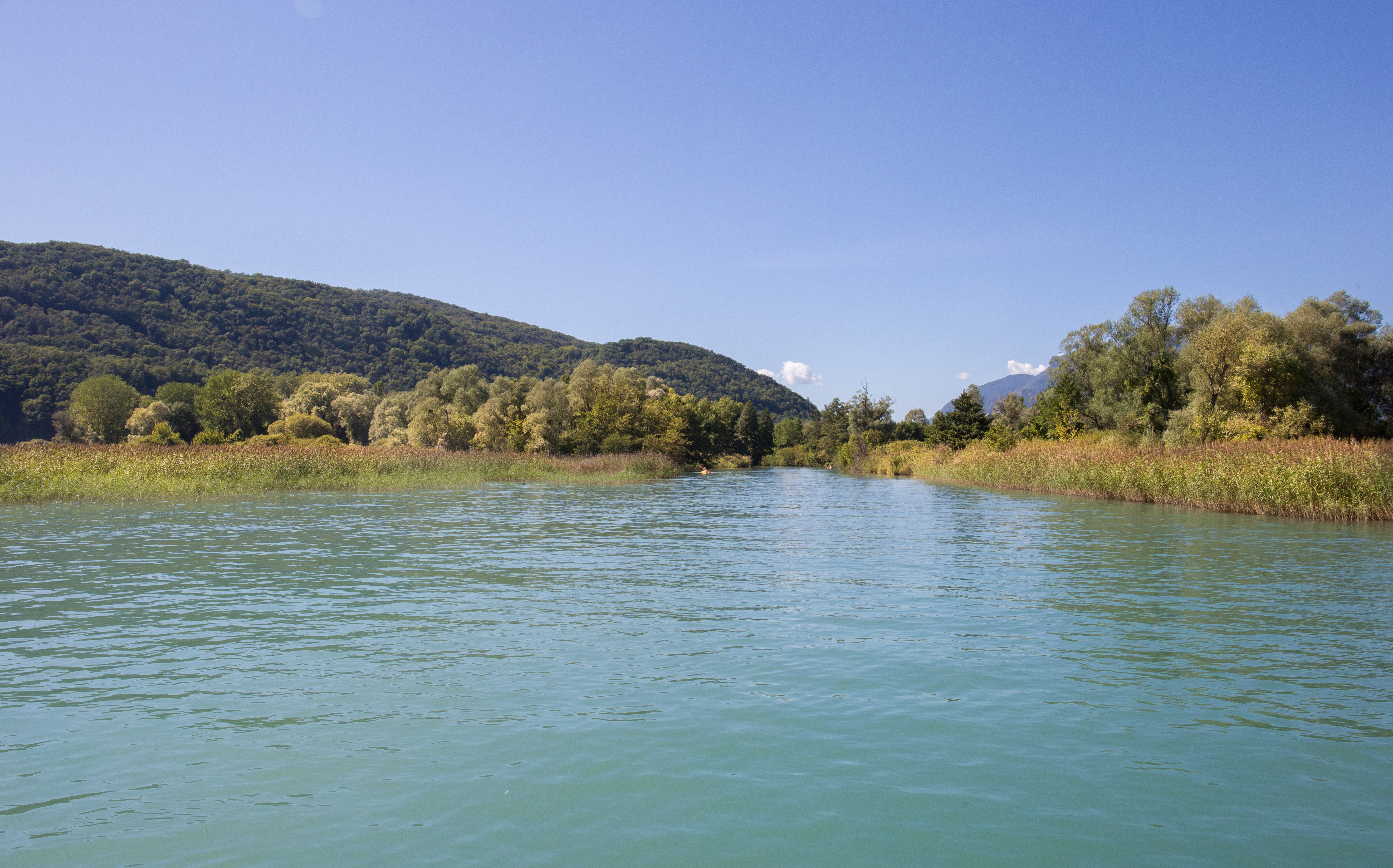 Savières Channel entrance on the Lac du Bourget.